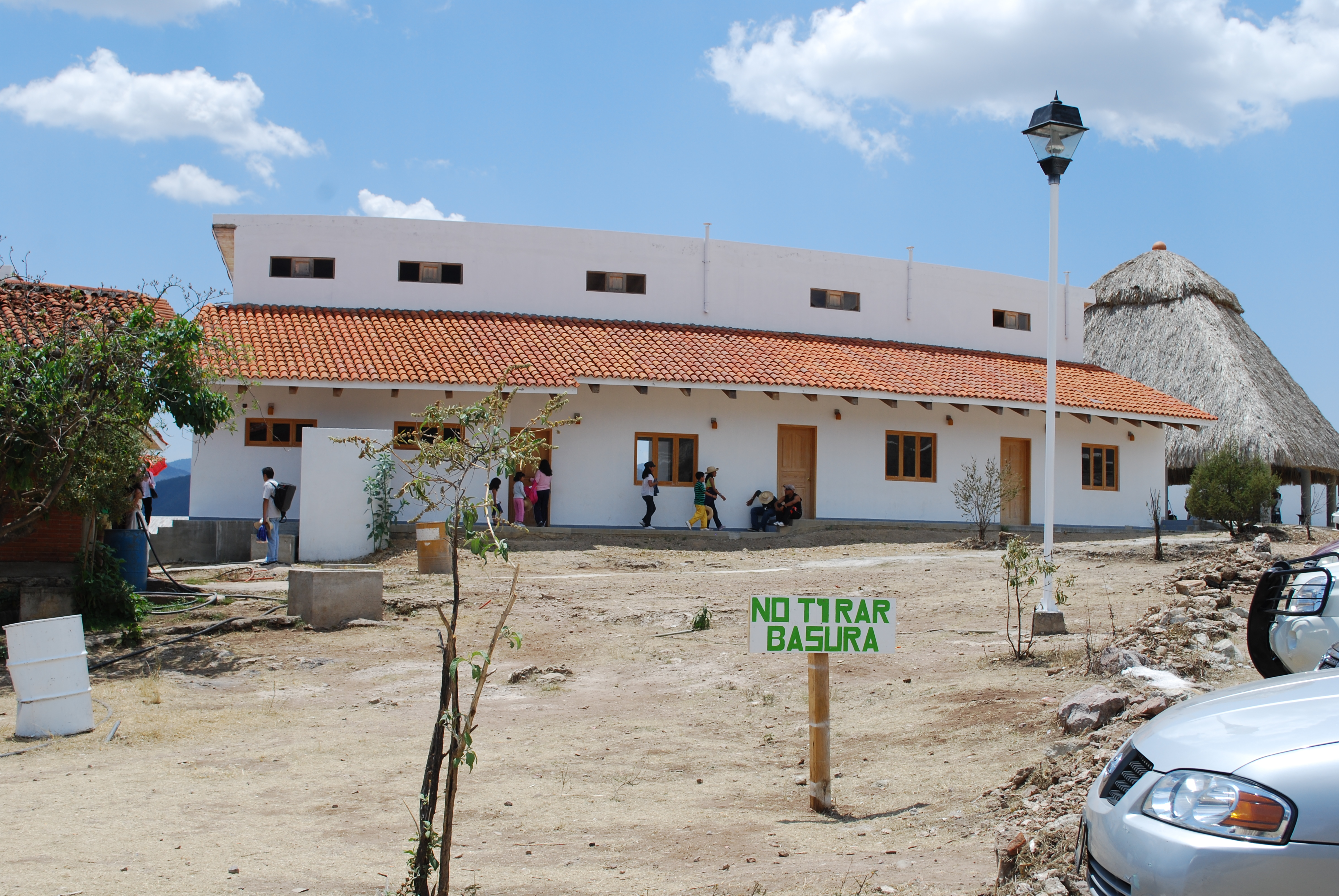 Bathhouse at Hierve el Agua, Oaxaca